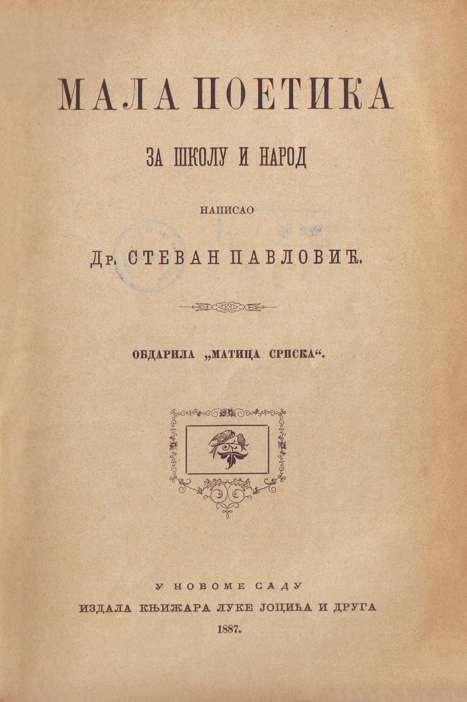 Cover of Mala poetika za školu i narod (1887) by Stevan Pavlović. Srpski (latinica): Naslovna strana Male poetike za školu i narod (1887) Stevana Pavlovića.